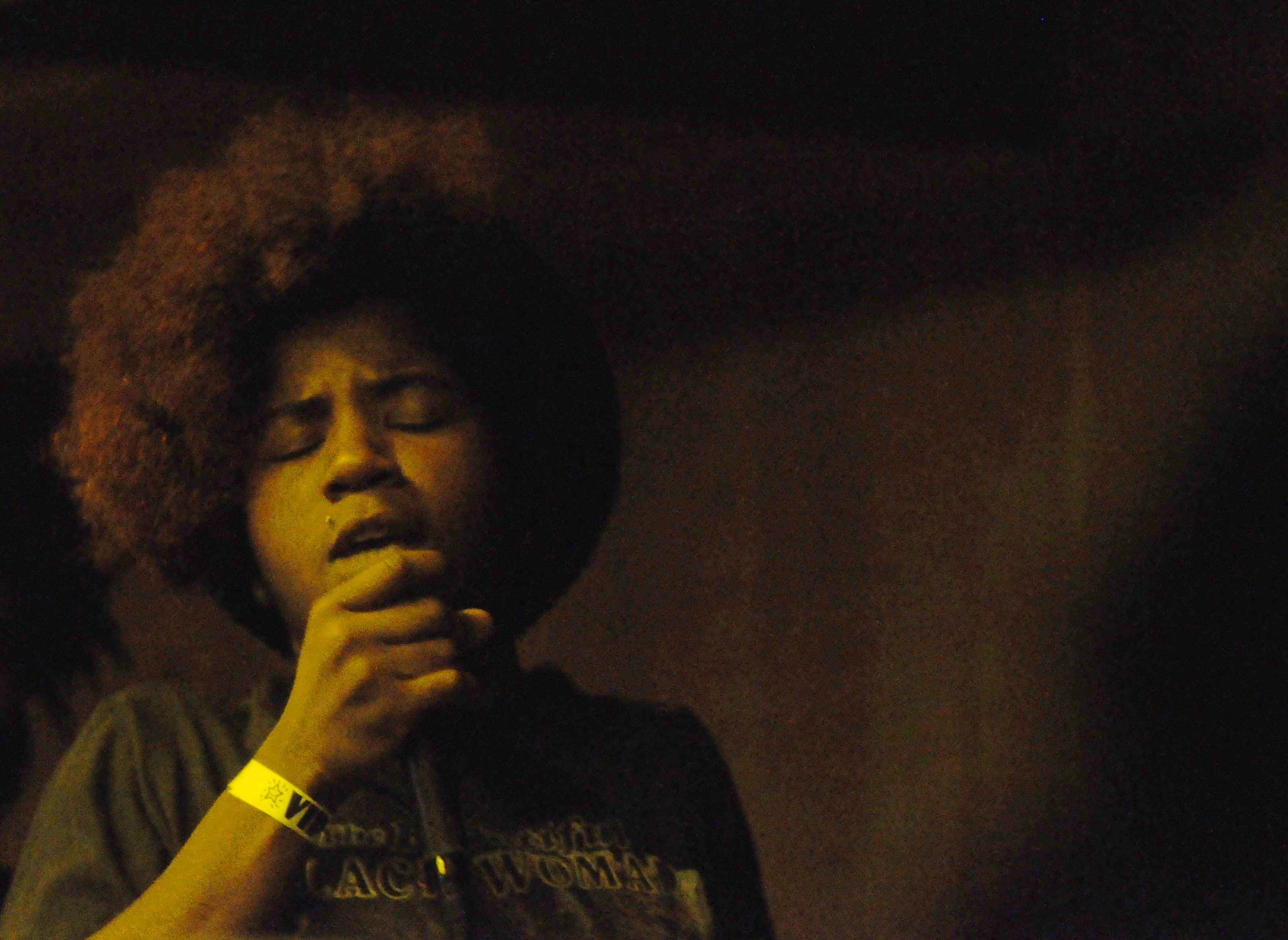 Catherine "Cat" Satisfaction (Catherine Harris-White, later known as SassyBlack) of Thee Satisfaction (also written as THEESatisfaction) performing with hip-hop group Champagne Champagne at the New York Fashion Academy in Ballard, Seattle, Washington as part of Reverb 2009.